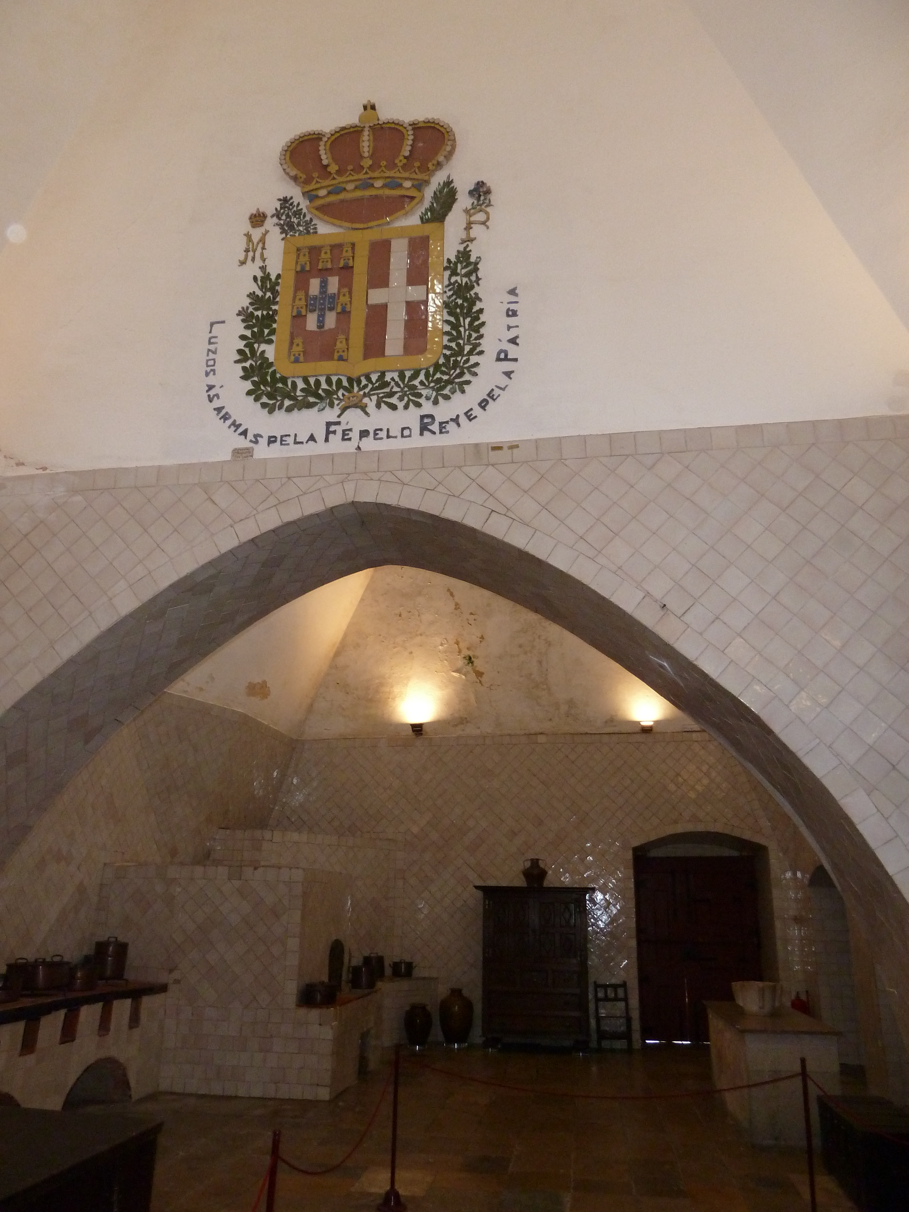 Interiors of Palácio Nacional de Sintra, Sintra